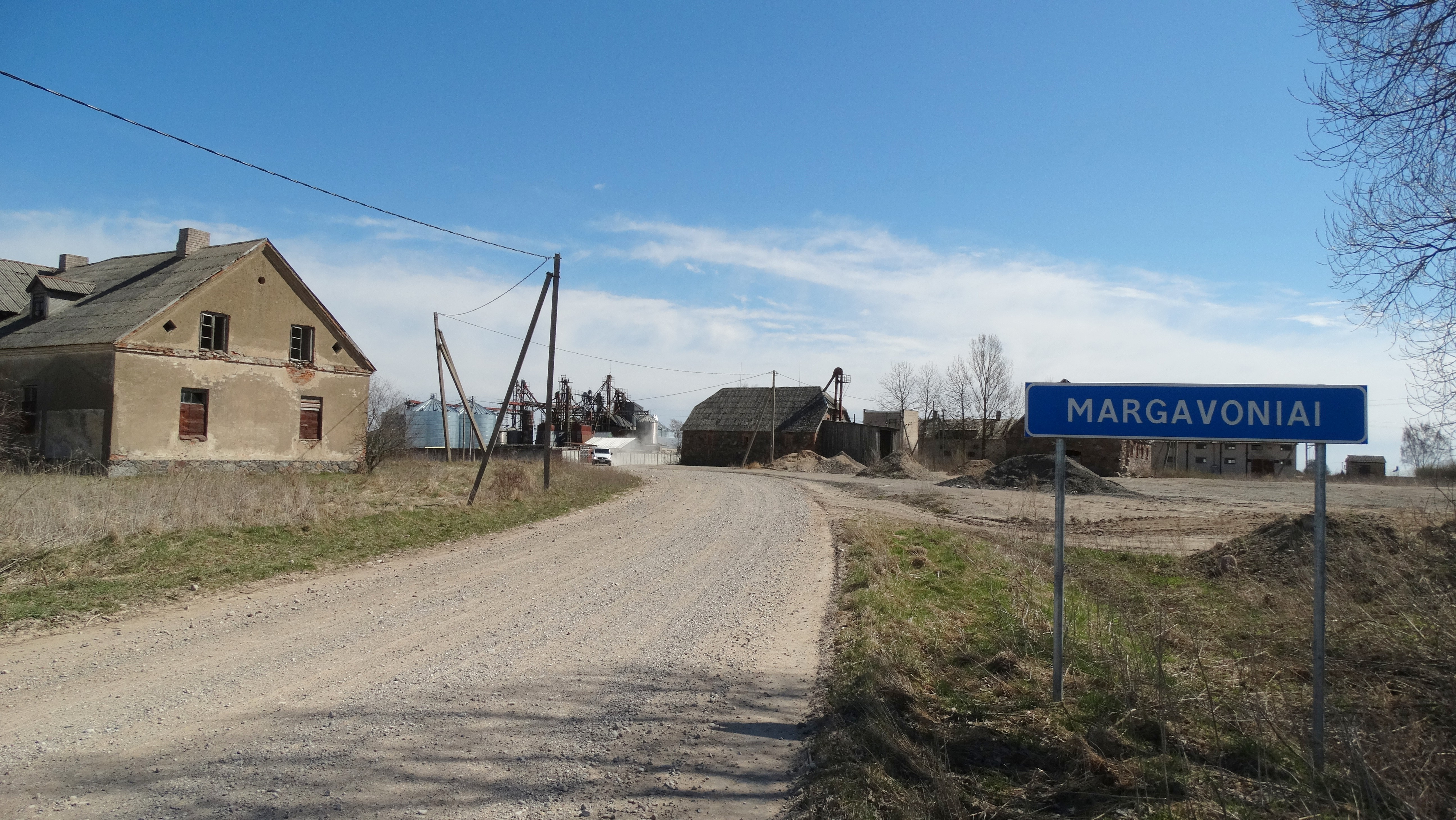 Margavoniai, Radviliškis district, Lithuania